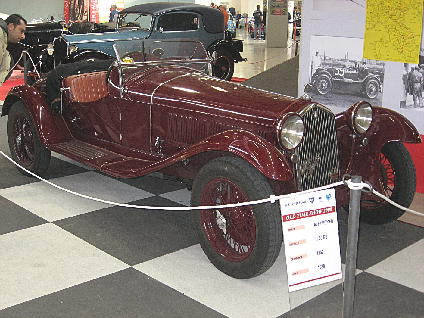 Subject:Alfa Romeo 6C 1750 Gran Sport Zagato del 1930 Author:Luc106 Date:March 15th, 2007 Event:Old Time Show 2008 Place/Country: Forlì, Italy I release all rights in the public domain.